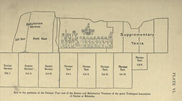 Versions of Behistun inscriptions